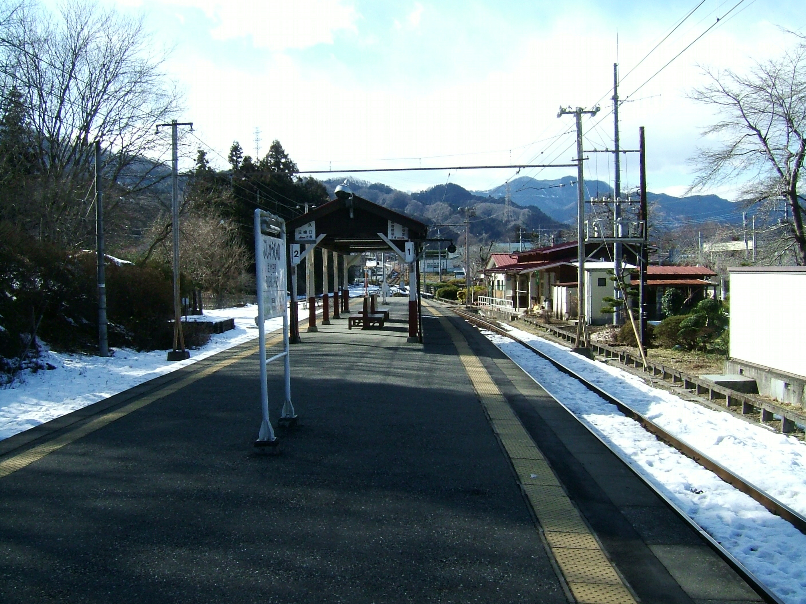 The platform at Bushū-Hino Station on the Chichibu Main Line